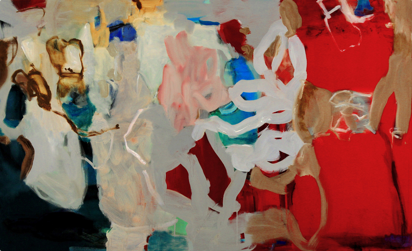 Oil painting on stretched canvas, 72"x 42"